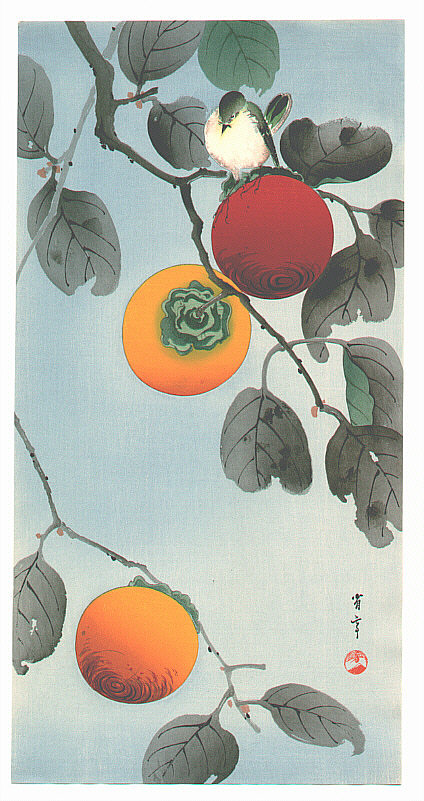 Bird on a Persimmon Tree. A bird and three persimmons on blue-gray background.